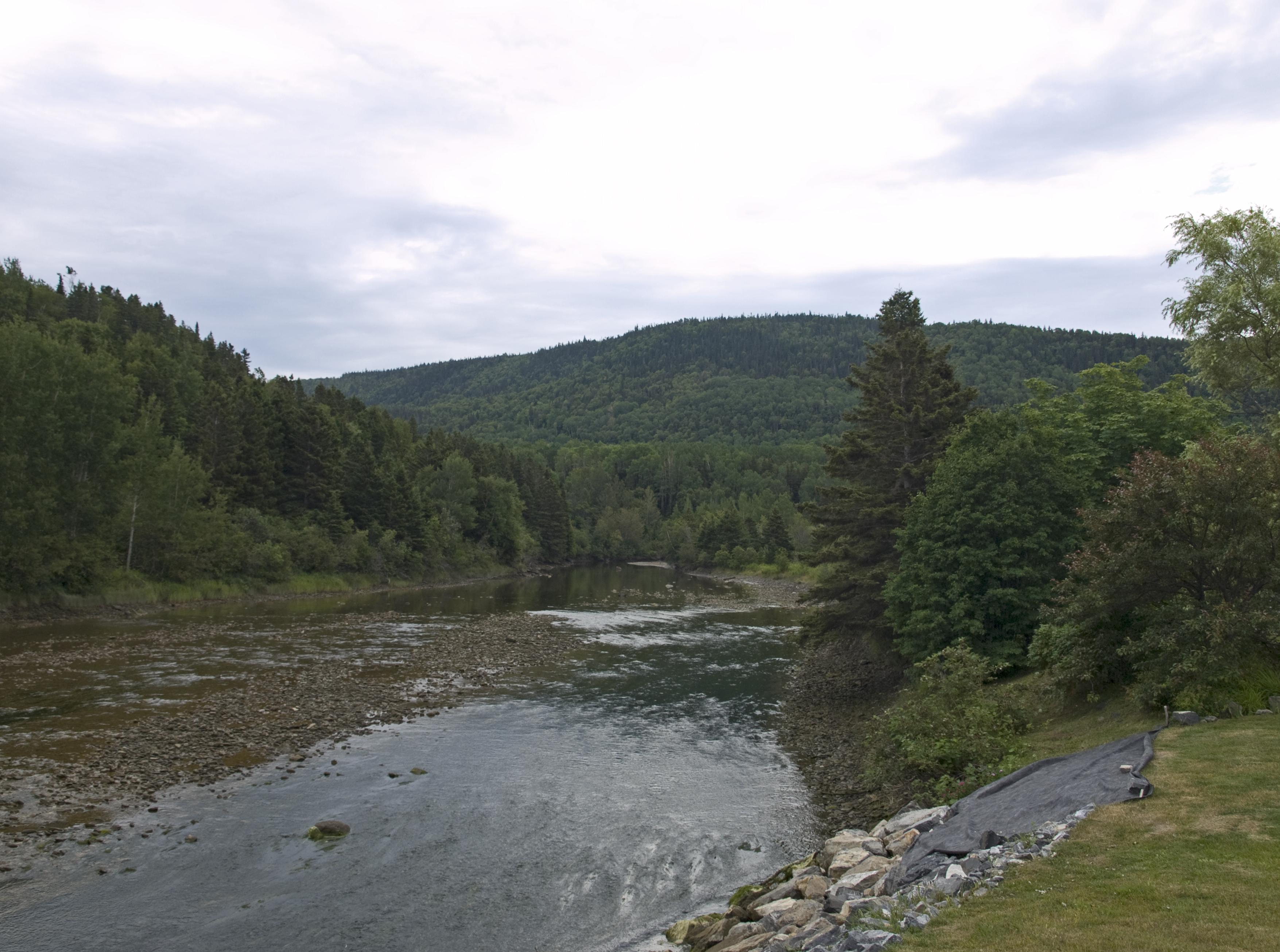 The Grande-Vallée River upstream from the covered bridge